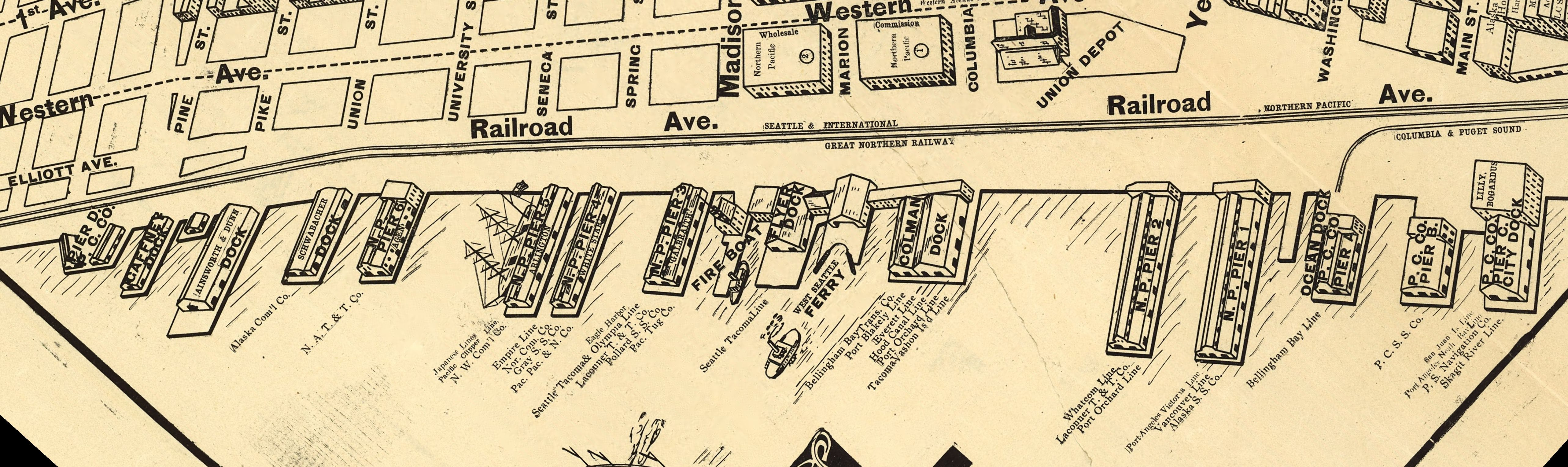 Perspective map not drawn to scale. Bird's-eye-view. Cropped from LC Panoramic maps (2nd ed.), 976 Available also through the Library of Congress Web site as a raster image. AACR2: 651/1; 650/2